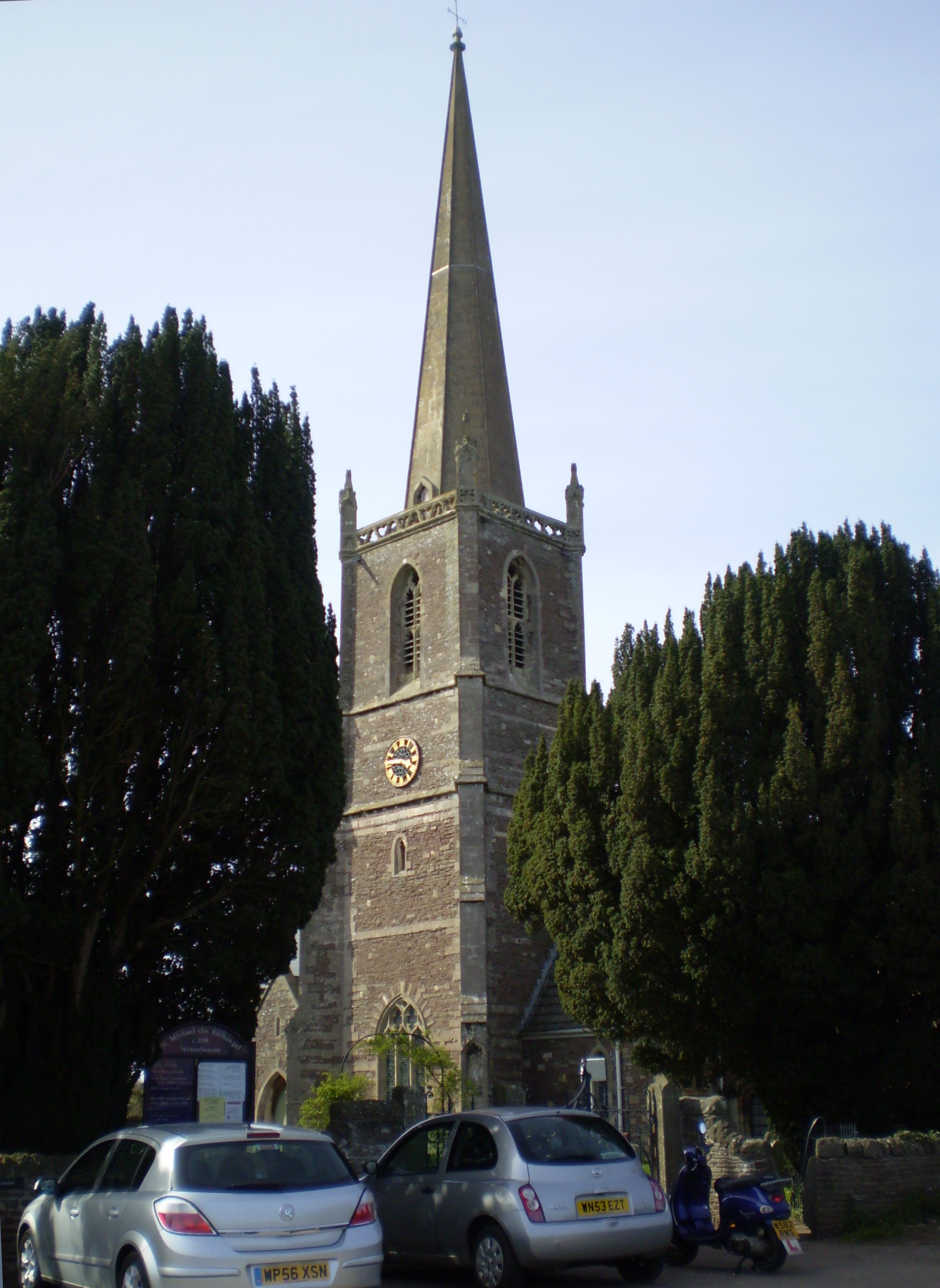 West tower and spire of St Michael the Archangel parish church, Winterbourne, Gloucestershire